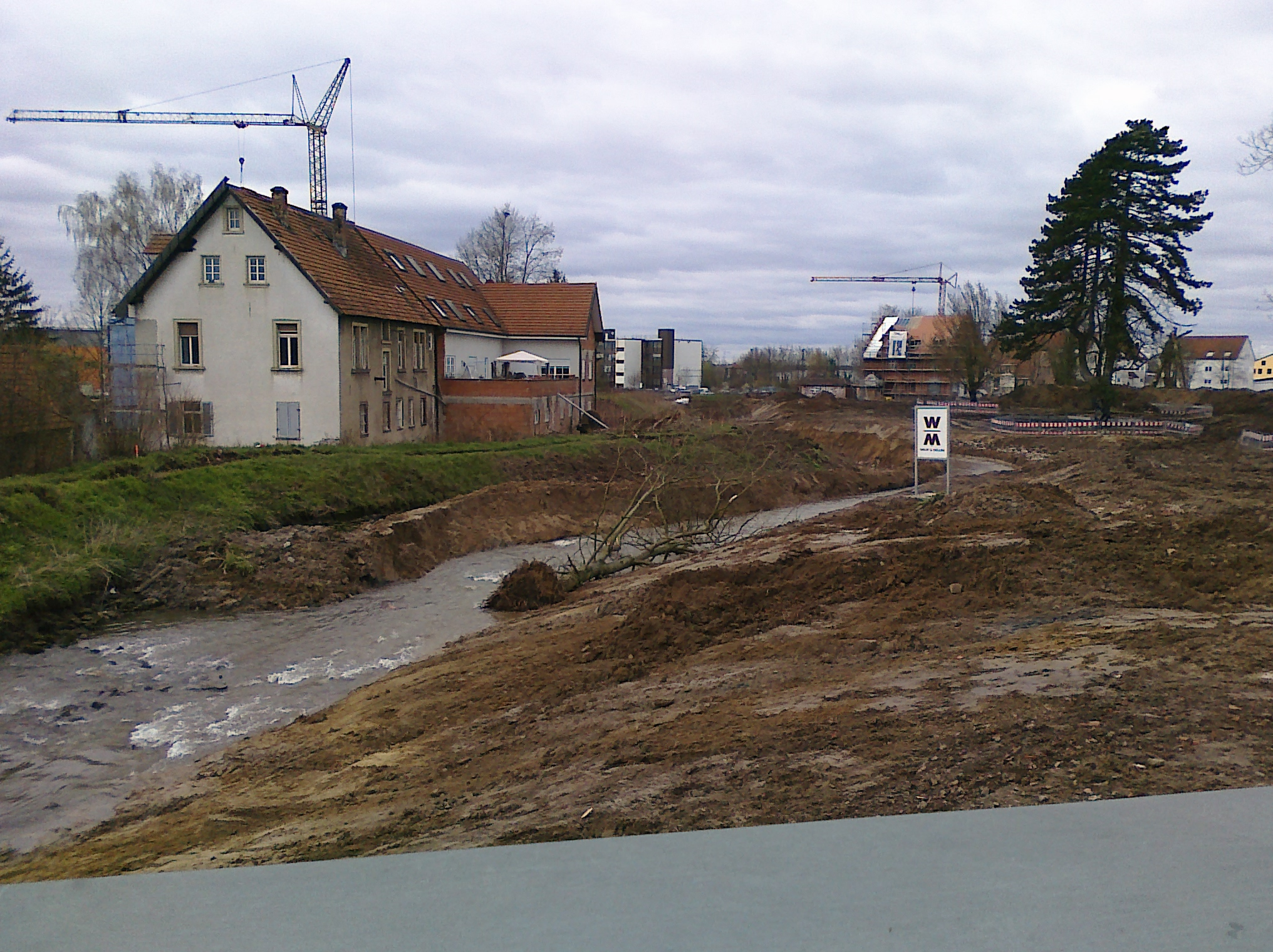 Leimbach Park during construction, immediately following diversion of the River Leimbach to the new wider channel. Former water-mill at left (in front of near crane), and former Tonwaren-Industrie Wiesloch administration building (under renovation) at top centre (in front farther away crane). Taken from the "In den Weinäckern" road bridge, looking North.